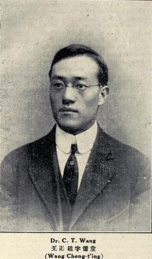 Wang Zhengting (Wang Cheng-t'ing; C. T. Wang), Rutang (1882 - 1961)